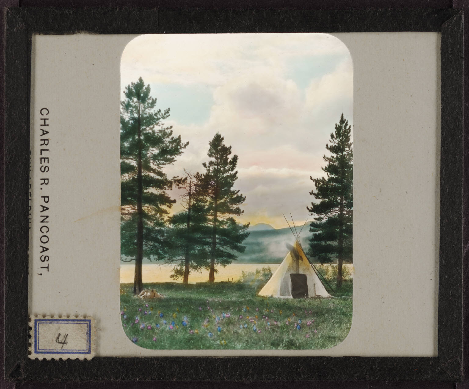 Author/Creator: McClintock, Walter, 1870-1949. Pancoast, Charles R. Date: undated Part of: Walter McClintock papers, 1874-1946. Physical Description: 1 lantern slide hand col. 8 x 10 cm. Folder or box number: Lantern slides box 1 Subjects: Indians of North America. Siksika Indians. Montana. Genre/Form: Lantern slides Cite as: Yale Collection of Western Americana, Beinecke Rare Book and Manuscript Library Repository: Beinecke Rare Book and Manuscript Library, Yale University Bibliographic Record Number: 2008340 Call Number: WA MSS S-1175 View our Record: Permalink